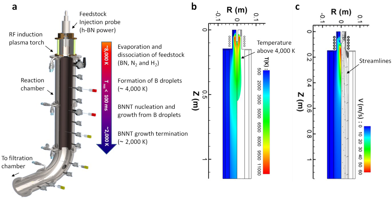 (a) Schematic of an RF induction thermal plasma system developed for the largescale synthesis of high quality small-diameter BNNTs using the atmospheric pressure HABS process. Pure h-BN powder is continuously transformed into BNNTs by passing through a high temperature N2-H2 plasma (~8000 K). (b) Calculated temperature distribution inside the reactor. The right-hand side shows the hot temperature zone above 4000 K. (c) Calculated velocity distribution (left) and streamlines (right). Net plasma power: 35 kW; pressure: 93 kPa; central gas: Ar (30 slpm); sheath gas: a ternary mixture of Ar (45 slpm), N2 (55 slpm), and H2 (20 slpm); powder carrier gas: Ar (3 slpm).